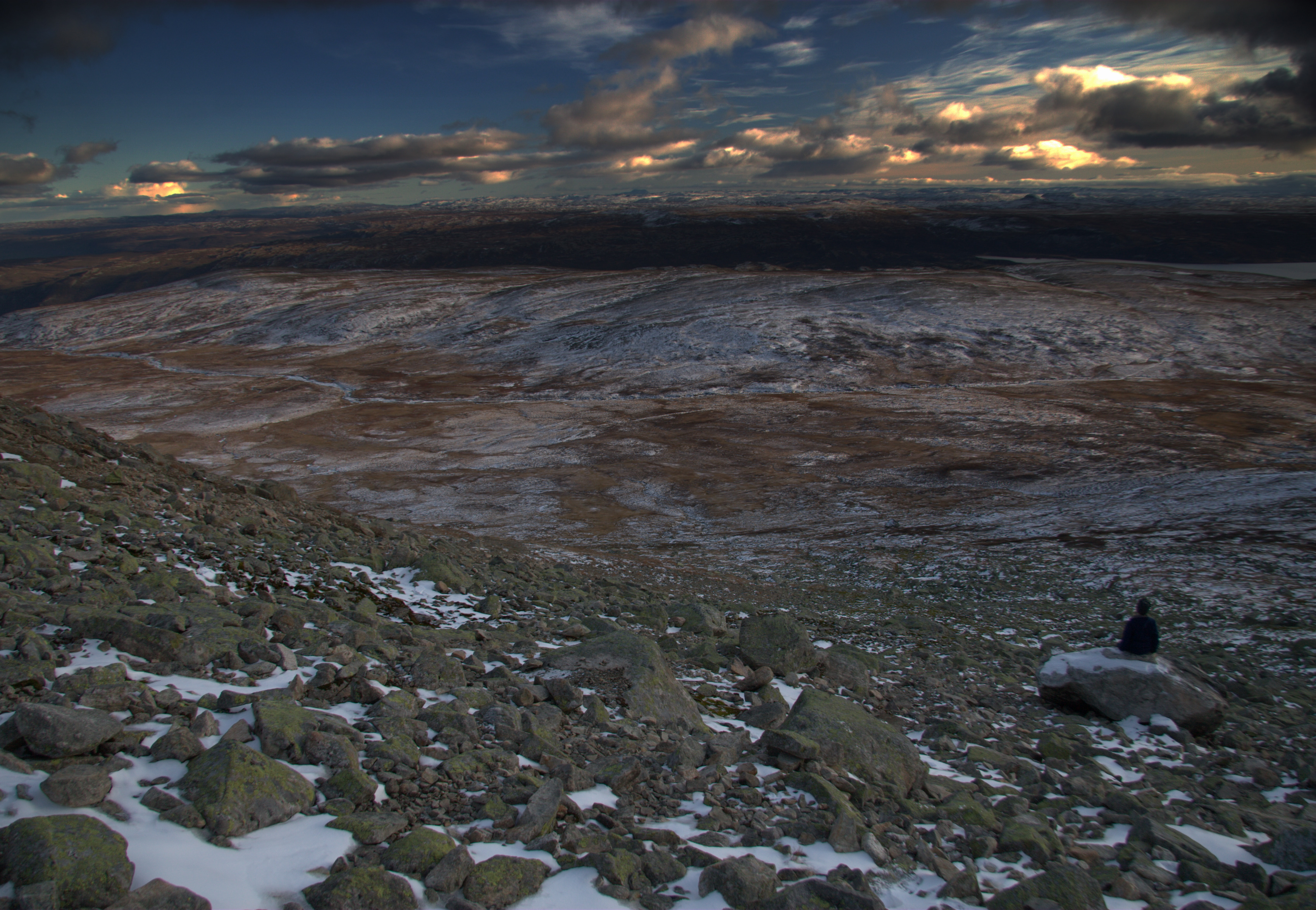 The wide end empty landscape in the hallingskarvet national park at sunset